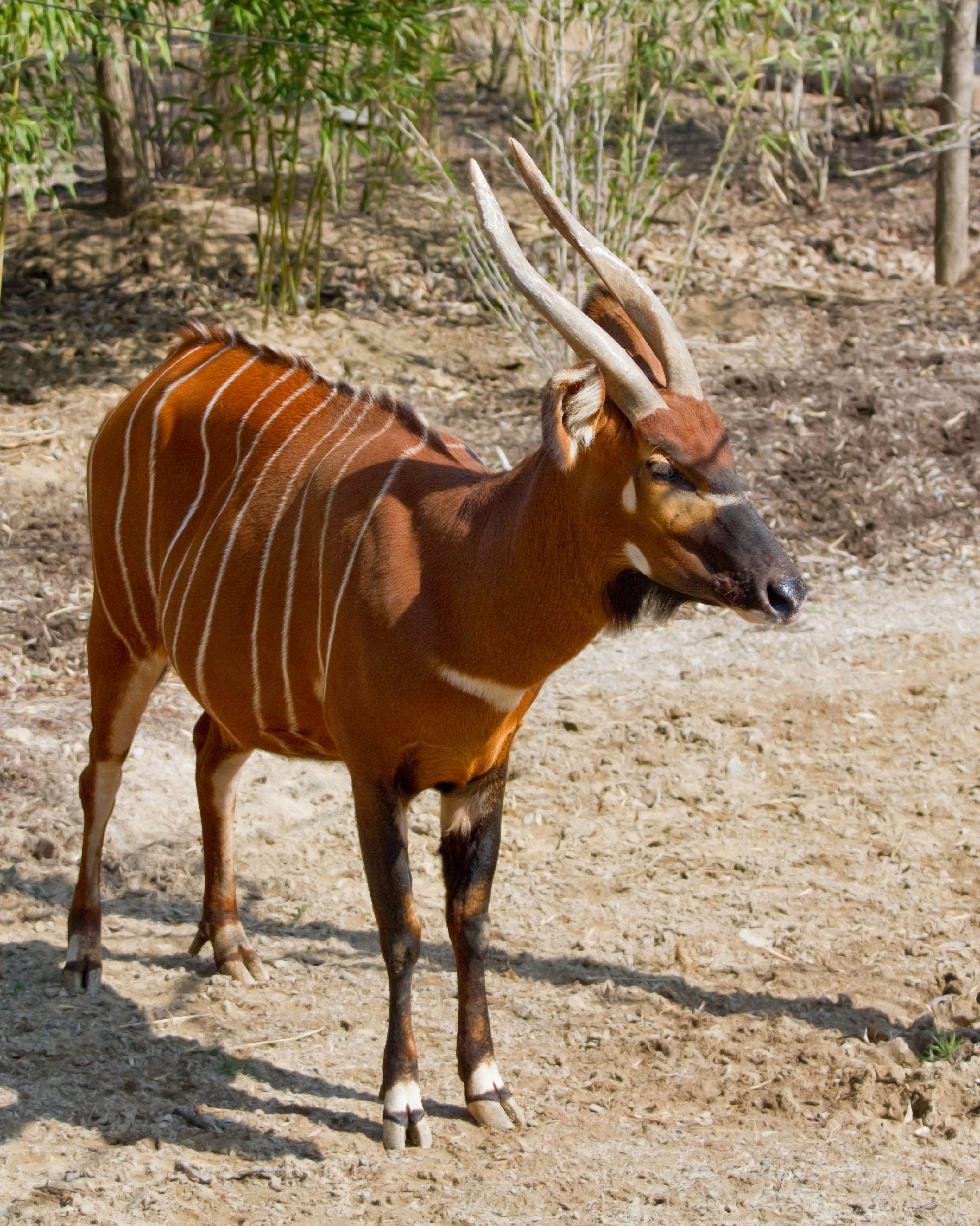 Eastern lowland bongo at the Cincinnati zoo.